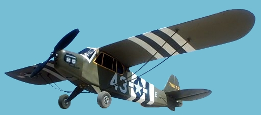 Custom-painted ParkZone J-3 Cub radio controlled aircraft built, owned, flown and photographed by Lucky (user form english wikipedia) 6.9 and released into the public domain.